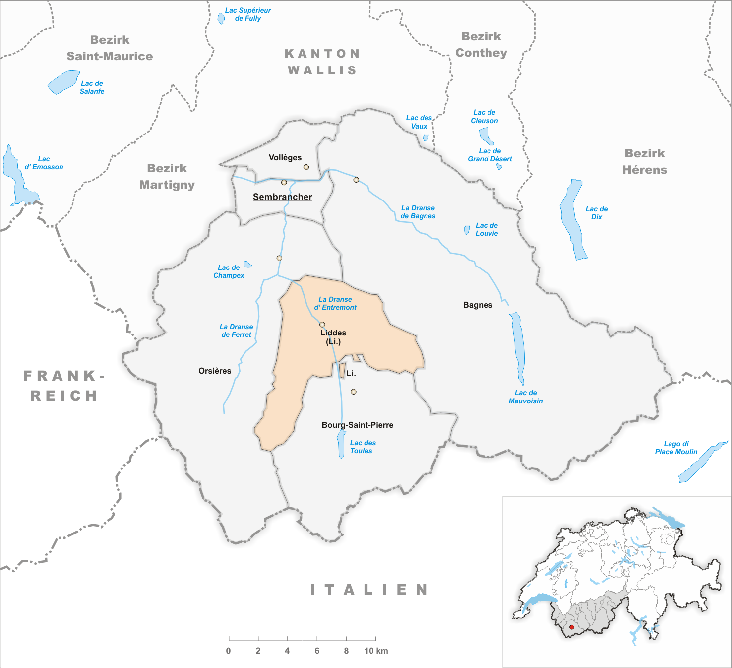 Municipality Liddes